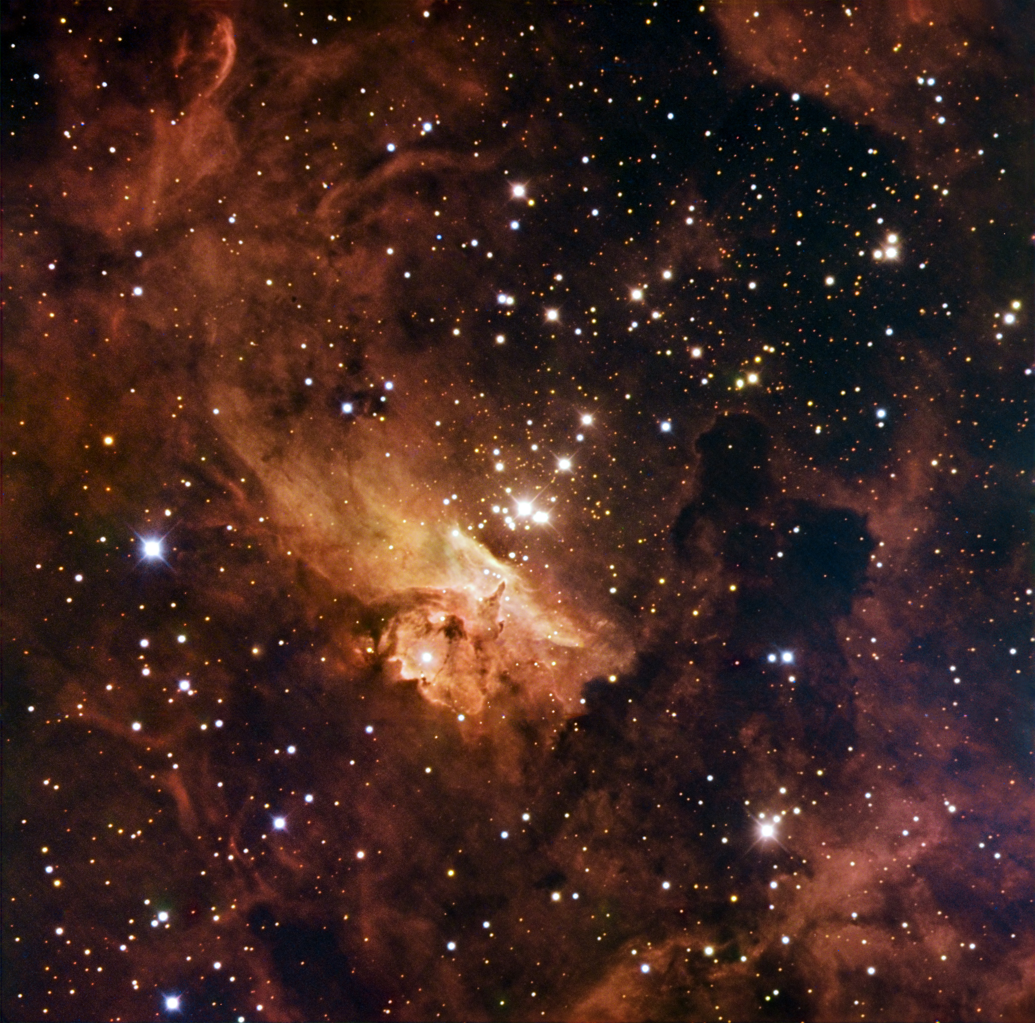 Home to some of the largest stars ever discovered, the open stellar cluster Pismis 24 blazes from the core of NGC 6357, a nebula in the constellation of Scorpius (the Scorpion). Several stars in the clusters weigh in at over 100 times the mass of the Sun, making them real monster stars. The strange shapes taken by the clouds are a result of the huge amount of blazing radiation emitted by these massive, hot stars. The gas and dust of the nebula hide huge baby stars in the nebula from telescopes observing in visible light, as well as adding to the hazy appearance of the image. This image combines observations performed through three different filters in visible light (B, V, R) with the 1.5-metre Danish telescope at the ESO La Silla Observatory in Chile.